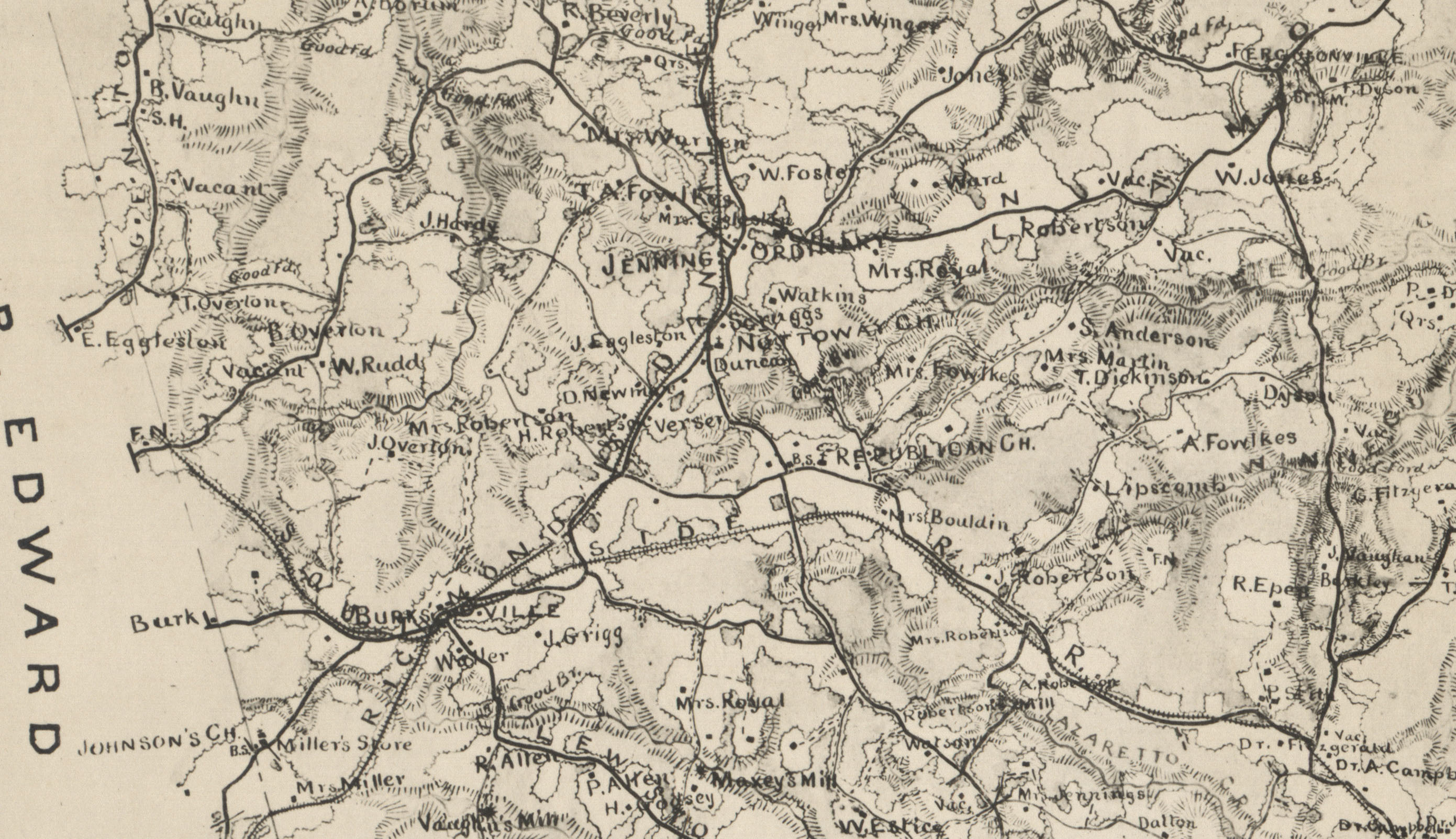 Close up of Burksville and Jennings Ordinary Area of Nottoway County, Virginia, taken from 1864 Map of Nottoway County available at the Library of Congress website